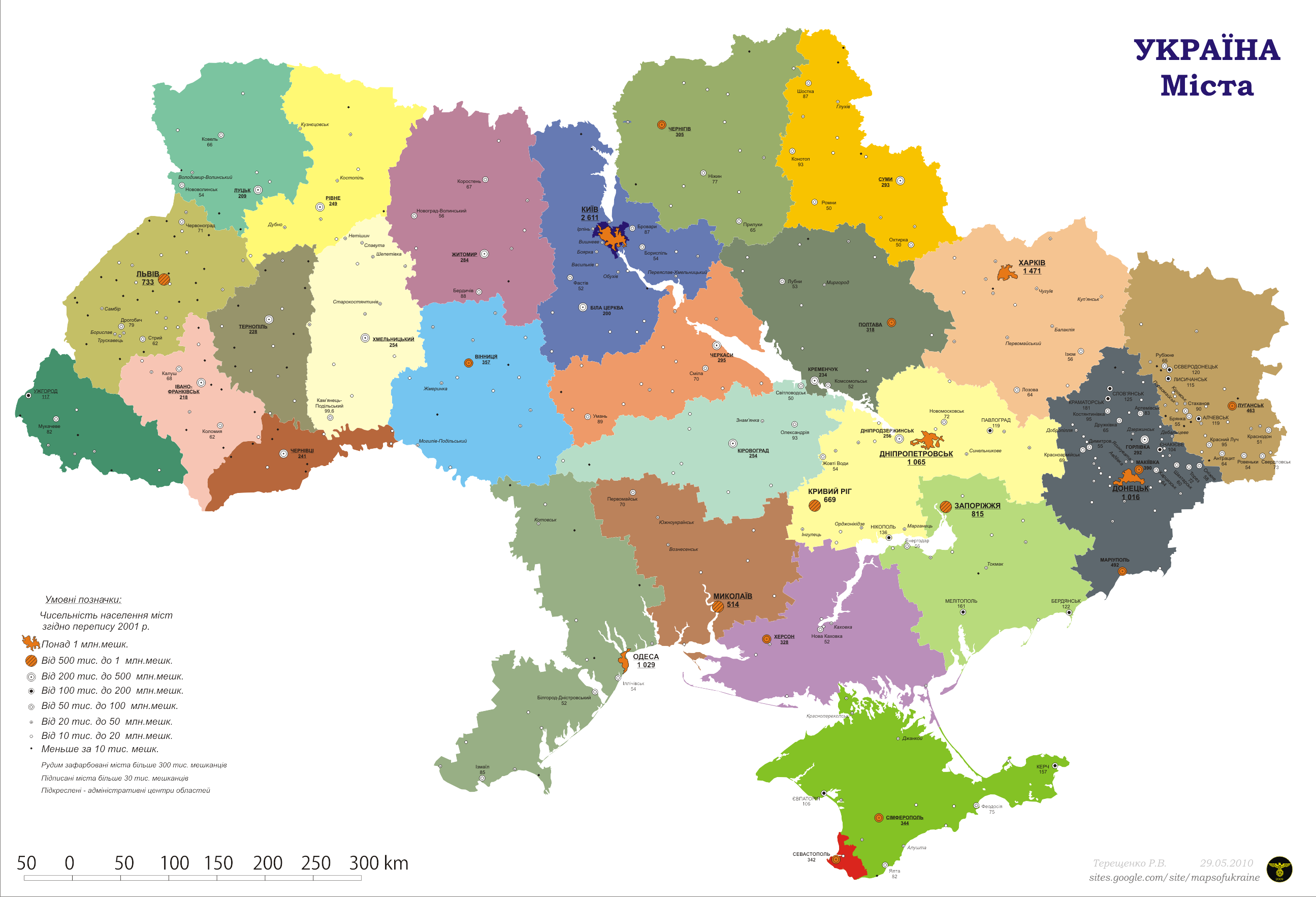 Cities of Ukraine